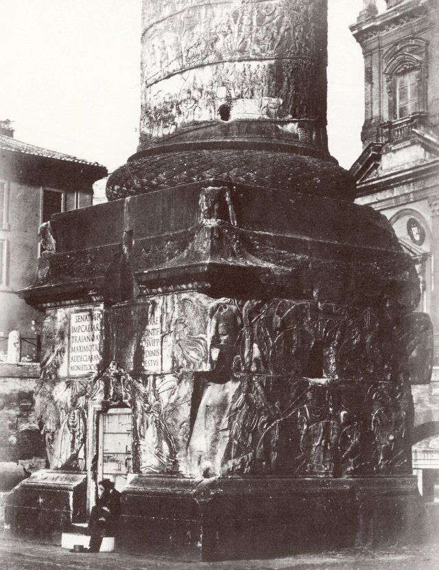 Rome, Base of Trajan's Column around 1860.